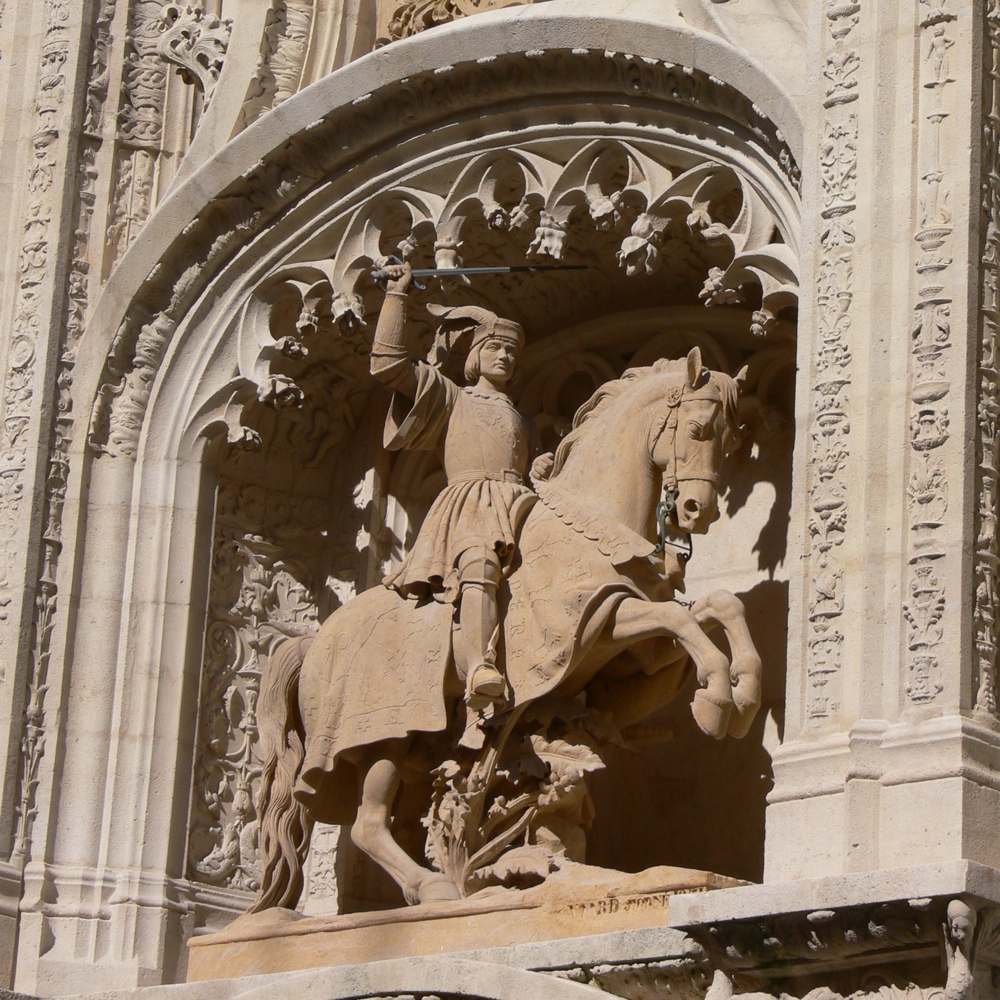 Equestrian statue of Antoine, Duke of Lorraine. Palace of Dukes of Lorraine in Nancy, Lorraine, France